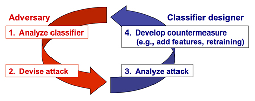 Fig. 1: A conceptual representation of the reactive arms race